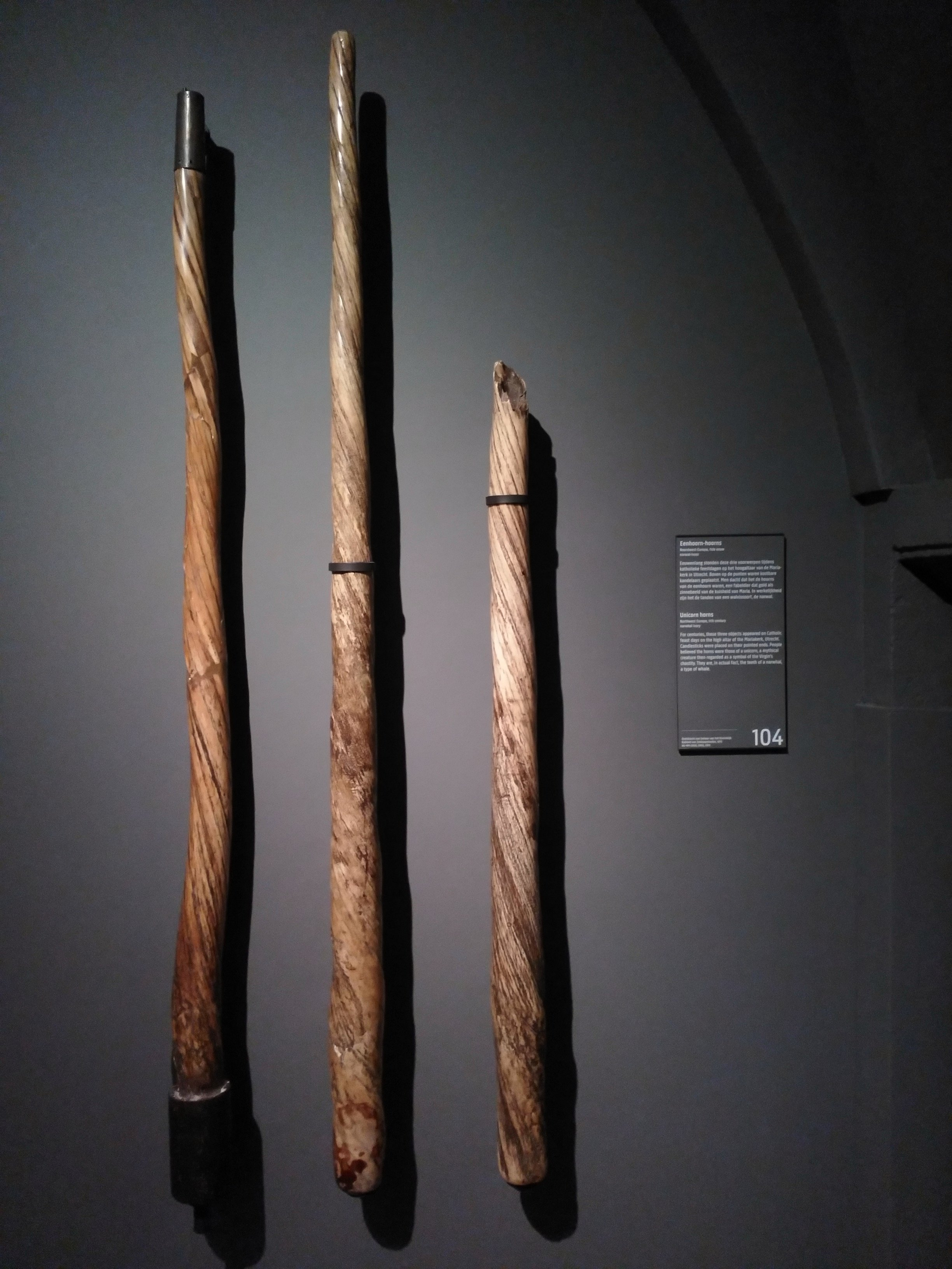 "Unicorn horns" on display at the Rijksmuseum. These came from the Mariakerk in Utrecht where they were used as candelstick holders.